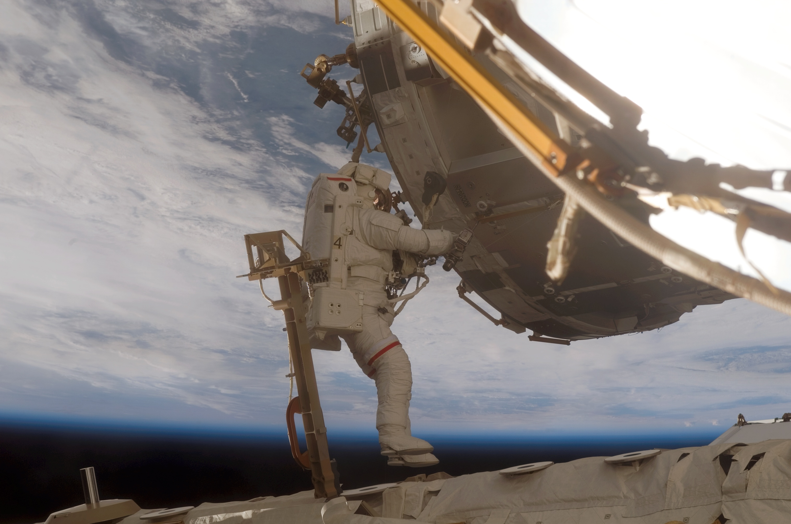 STS-120 mission specialist Scott Parazynski participated in the second of five scheduled spacewalks as construction continues on the International Space Station. During the 6-hour, 33-minute spacewalk Parazynski and Daniel Tani, Expedition 16 flight engineer, worked in tandem to upgrade the space station.